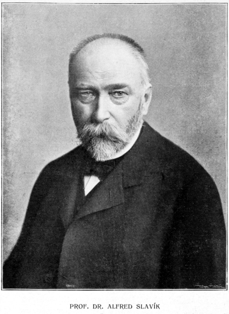 Alfréd Slavík (1847-1907) was a Czech geologist Česky: Alfréd Slavík (1847-1907) byl český geolog, vysokoškolský profesor a rektor ČVUT